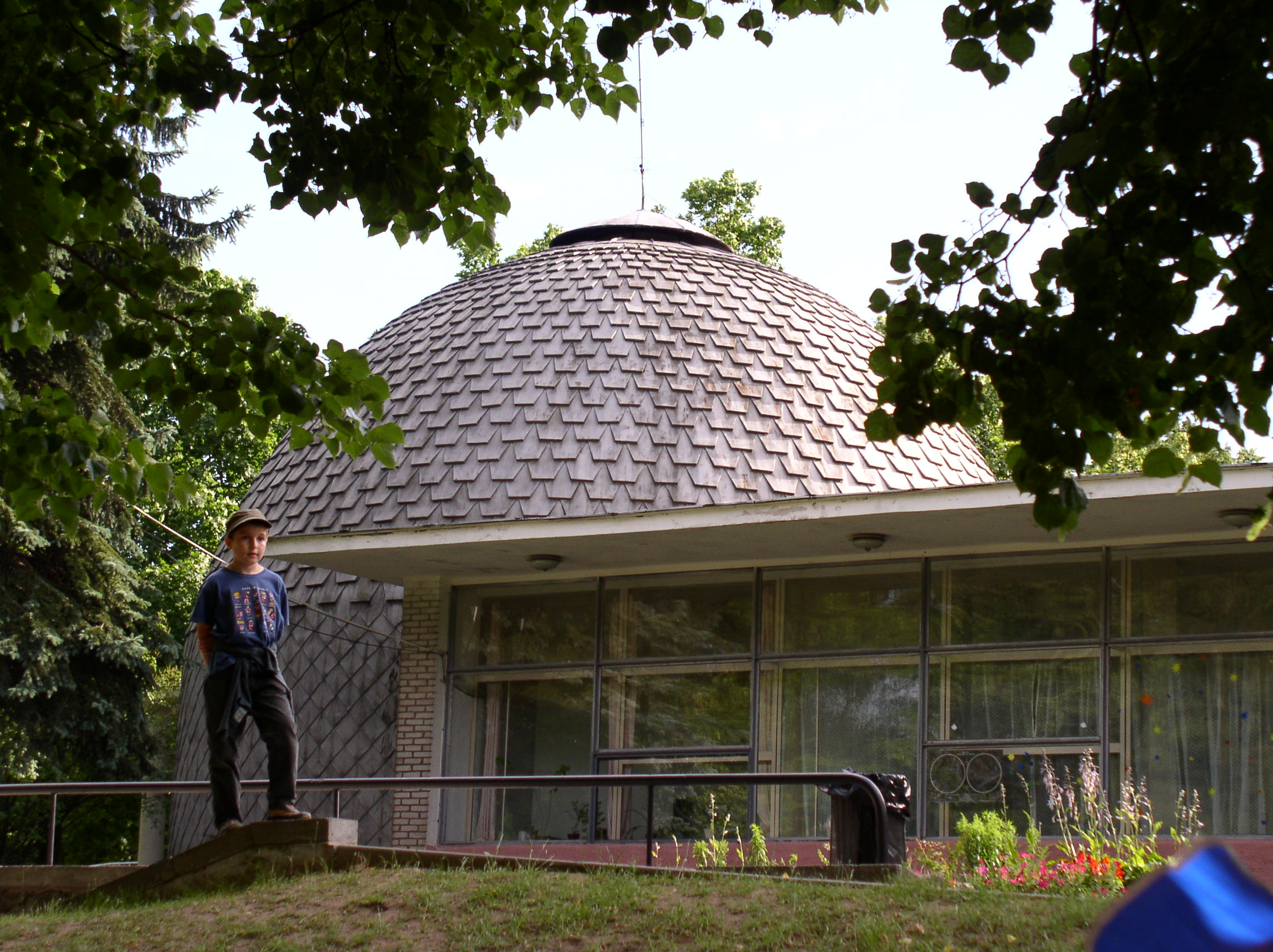 Planetarium in Central Children Park named after Maxim Gorky, Minsk, Belarus.